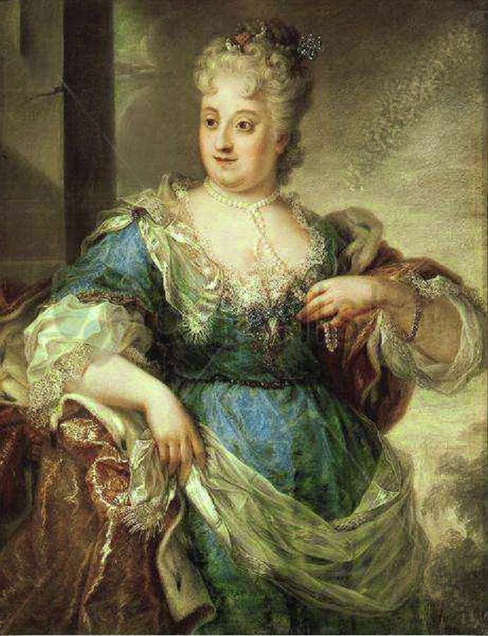 Eleonora Luisa Gonzaga, duchess of Rovere and Montefeltro (1686-1741)